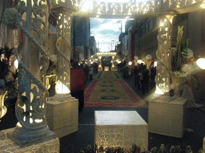 Uriangato: Muestras artísticas de los tapetes realizados en Uriangato, Gto.